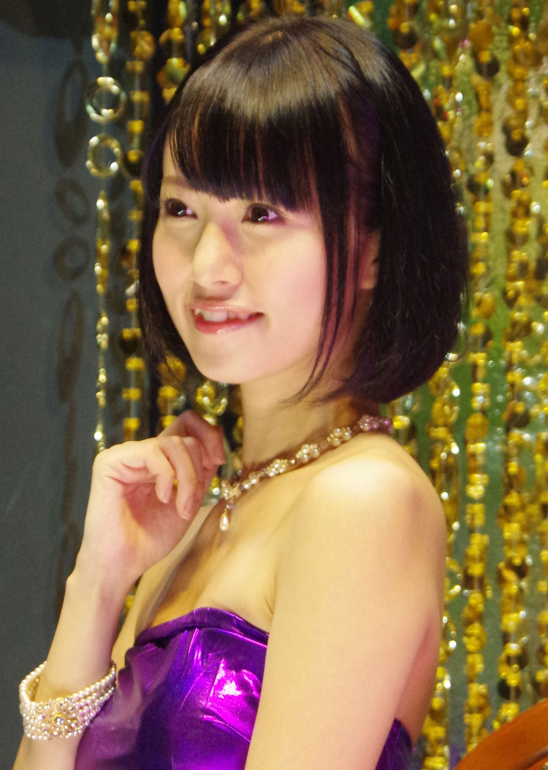 Kotomi Asakura at Tokyo Game Show 2014